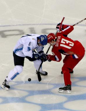 Finnish hockey player Saku Koivu facing against Team Russia's Pavel Datsjuk